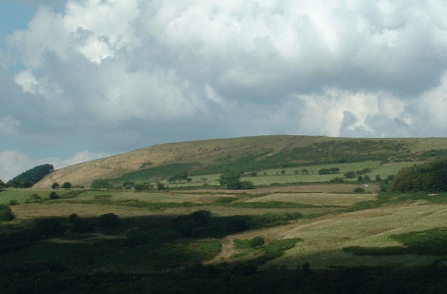 Towards Moel y Fen. Looking across the square from South to North up the slopes of Moel y Fen